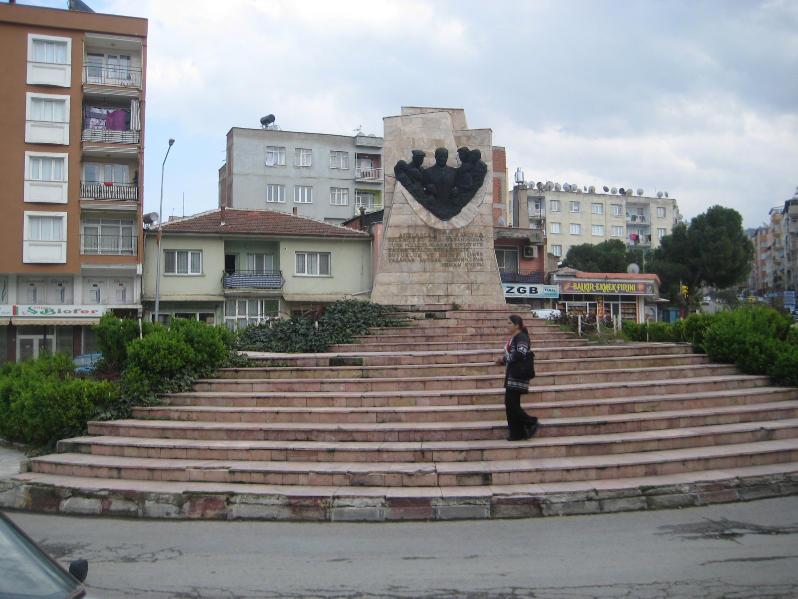 A monument to Kenan Evren in Alasehir, formerly Philadelphia.